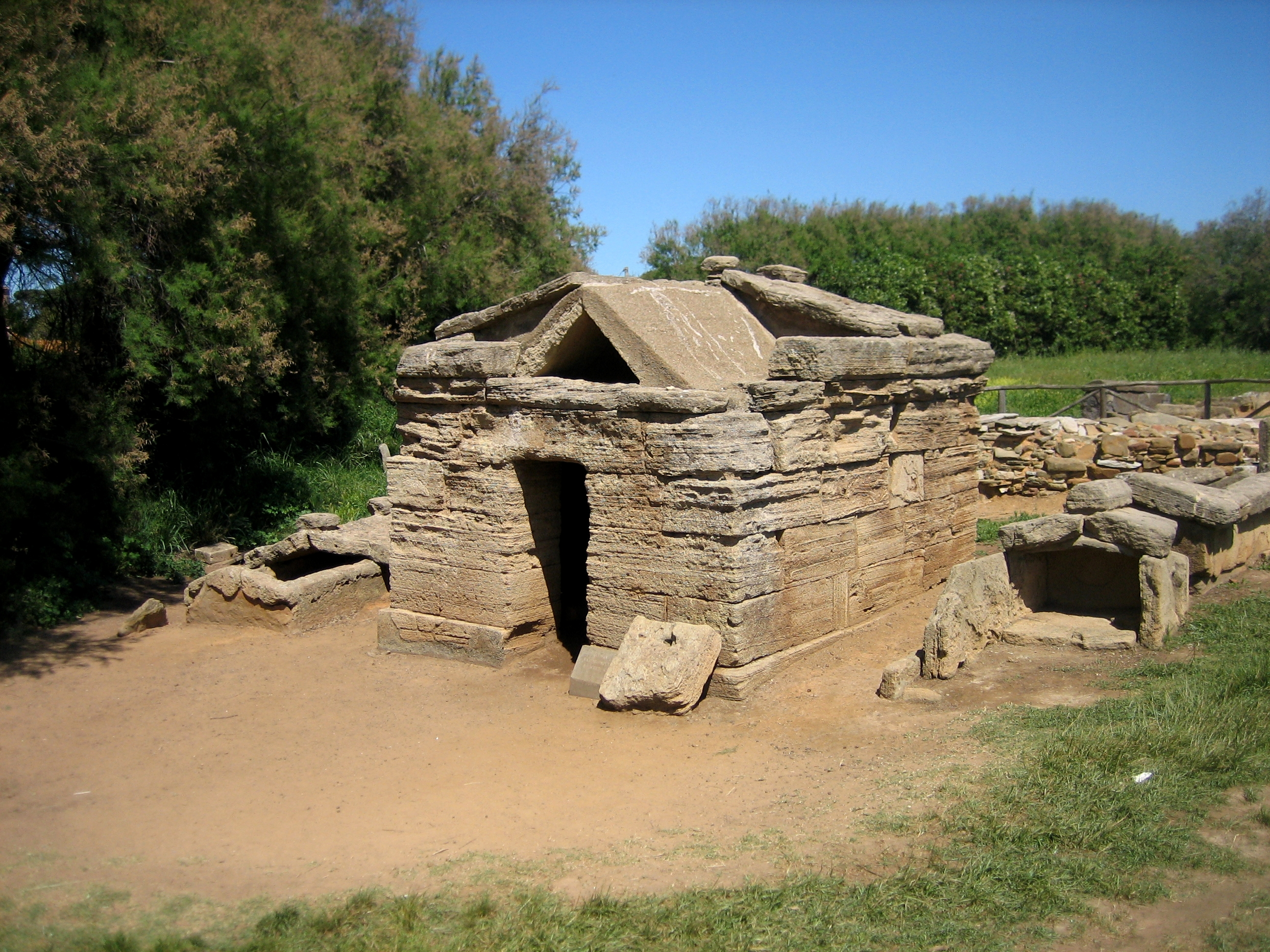 Death house at the necropolis of Populonia in tuscany in Italy.